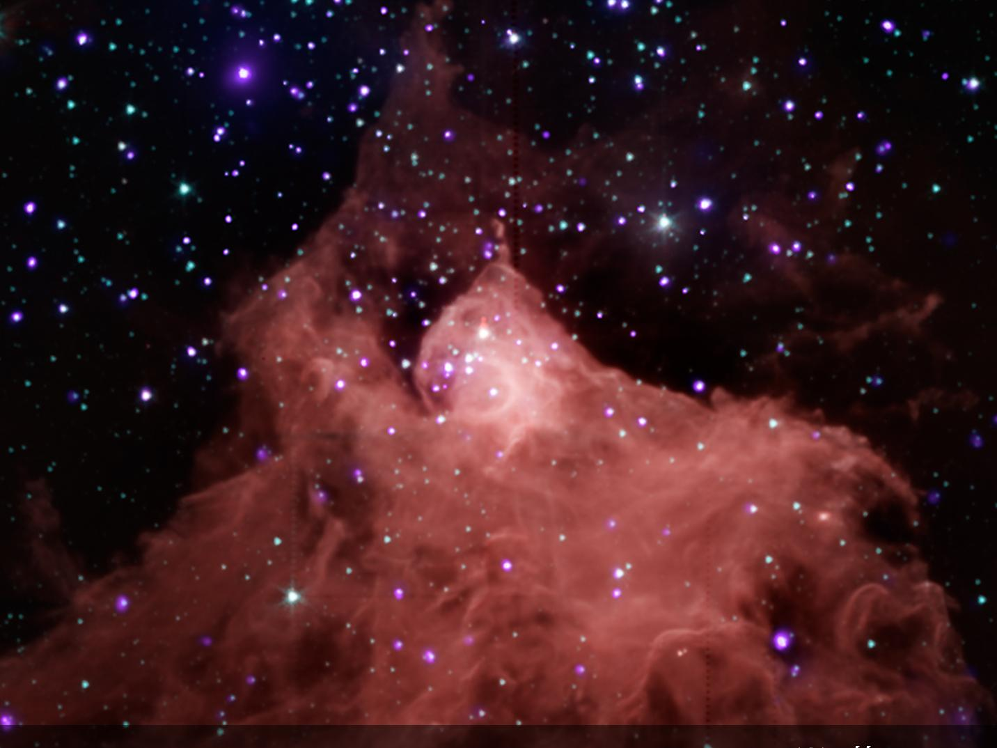 This composite image of Cepheus B combines data from the Chandra X-ray Observatory and the Spitzer Space Telescope. A molecular cloud is a region containing cool interstellar gas and dust left over from the formation of the galaxy and mostly contains molecular hydrogen. The Spitzer data, in red, green and blue show the molecular cloud (in the bottom part of the image) plus young stars in and around Cepheus B, and the Chandra data in violet show the young stars in the field. The Chandra observations allowed the astronomers to pick out young stars within and near Cepheus B, identified by their strong X-ray emission. The Spitzer data showed whether the young stars have a so-called "protoplanetary" disk around them. Such disks only exist in very young systems where planets are still forming, so their presence is an indication of the age of a star system.